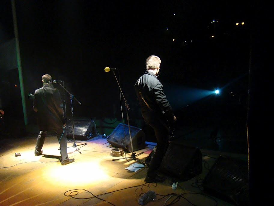 Holodne Sonce Solarice playing on open-air festival Rock-Storm 2010